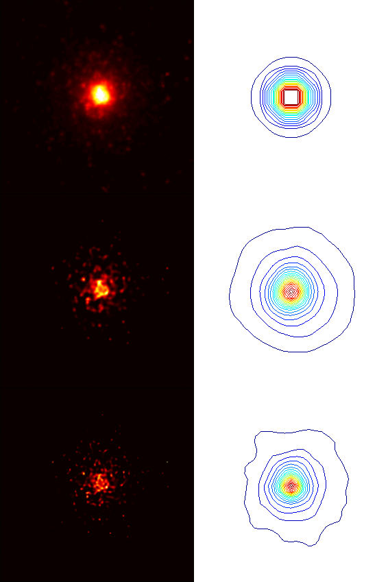 NGC224-HALO data reduction using blind deconvolution.